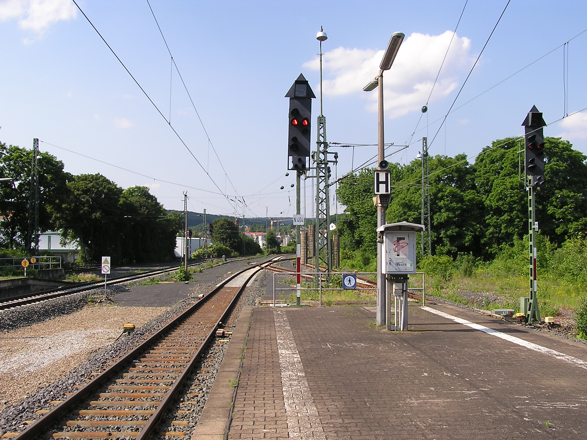 Northern ending of the station Friedrichsdorf. The Taunusbahn and the railway to Friedberg start here.